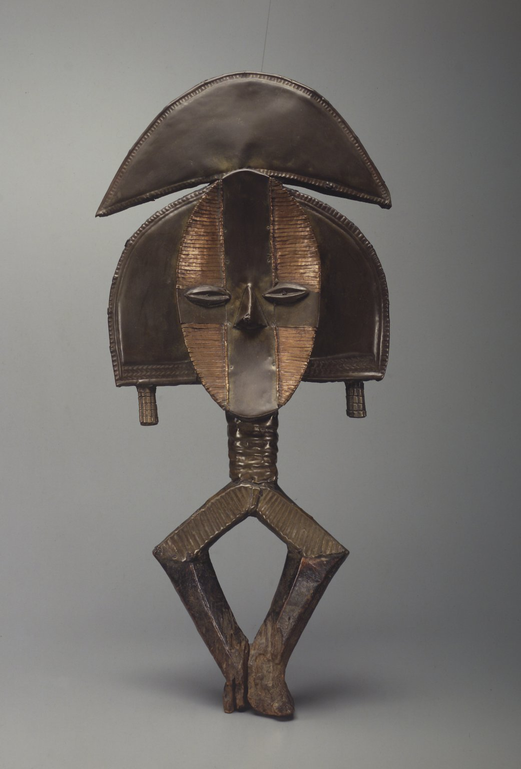 Kota reliquary figure known as Bwiti. Carved wood covered with copper and brass metal strips, engraved with geometric patterns. Concave, oval-shaped face bisected with two broad metal strips; remainder of the face covered with horizontally placed narrow metal strips. Almond-shaped eyes, nail heads as pupils. Nose, pointed dihedral shape; no mouth. "Extended elephant ears" with pendant earring of engraved metal strips. Crescent-shaped headdress, engraved along outer edge. Neck covered wtih single metal strip, engraved. Diamond-shaped lower portion of sculpture, top half covered wtih metal strip, lower portion wood left uncovered. CONDITION: Bottom of wood base damaged, some portions rotted away. The Kota once used reliquary guardian figures (mbulu ngulu) to protect and demarcate the revered bones of family ancestors. The bones were preserved in containers made of bark or basketry. The mbulu ngulu stood atop this bundle, bound to it at the figure's lozenge-shaped base. It is thought that the figurative form of the mbulu ngulu was intended to reinforce and communicate the reliquary's intense power. Kota mbulu ngulu are unique among African sculptural forms in their combination of wood and hammered metal.